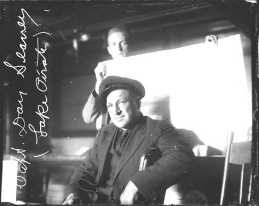 Pirate Captain Dan Seavey around the end of career, circa 1920.